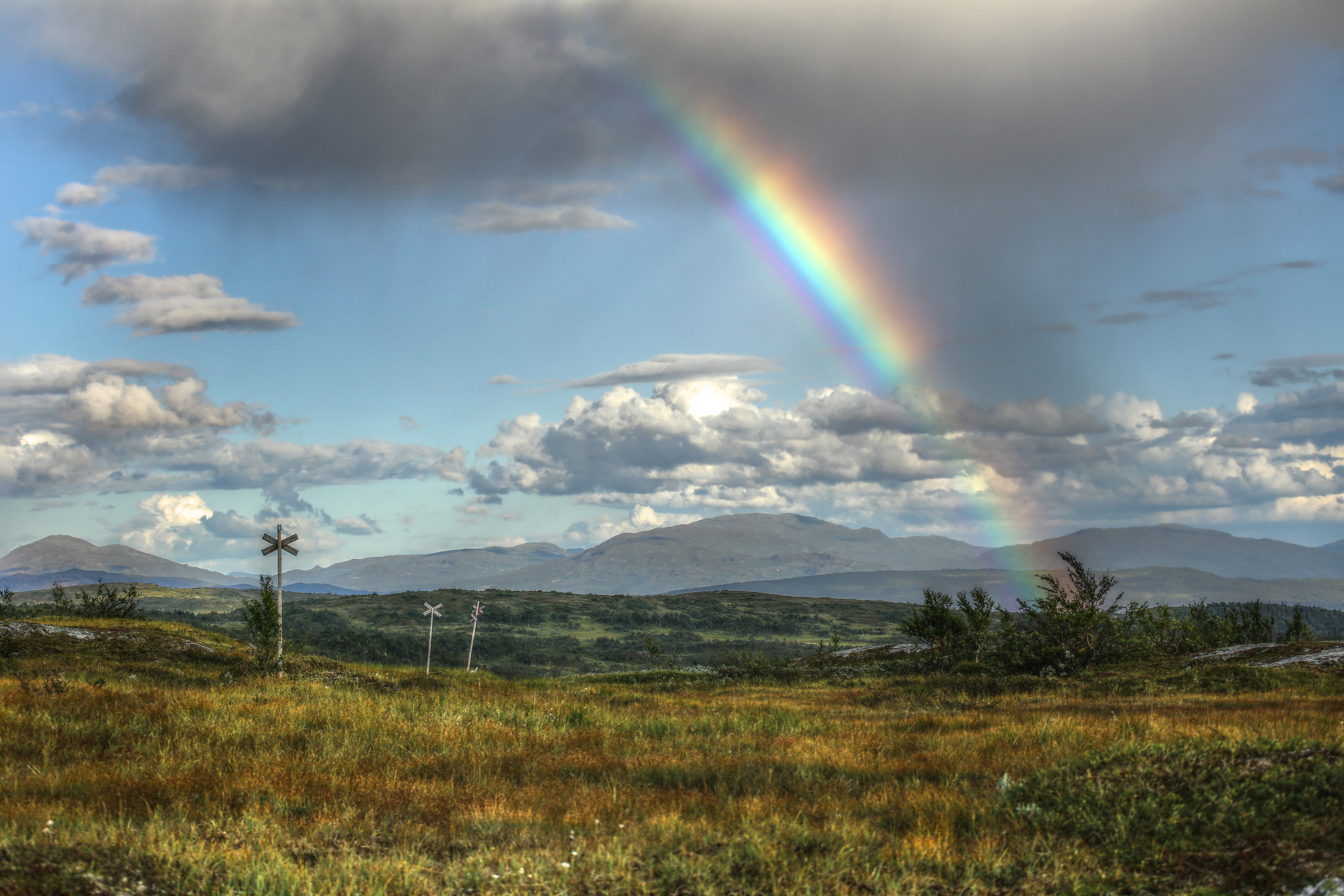 A rainbow over Brattlidfjället. Taken from the trail in Blåsjöfjäll natural reserve, close to the Norwegian border in the westernmost parts of the Jämtland region.